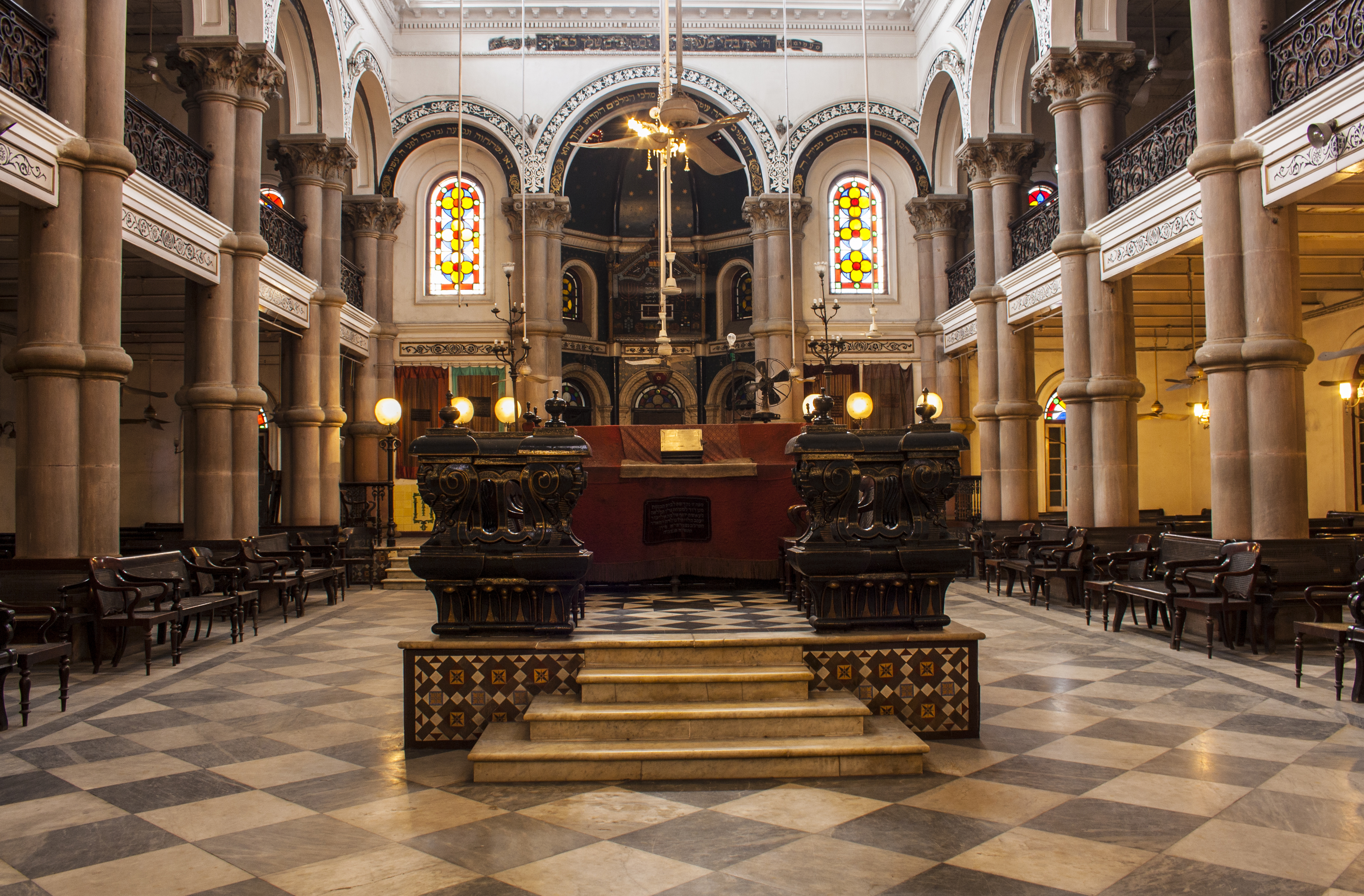 Interiors in wider view of Magen David Synagogue, Kolkata